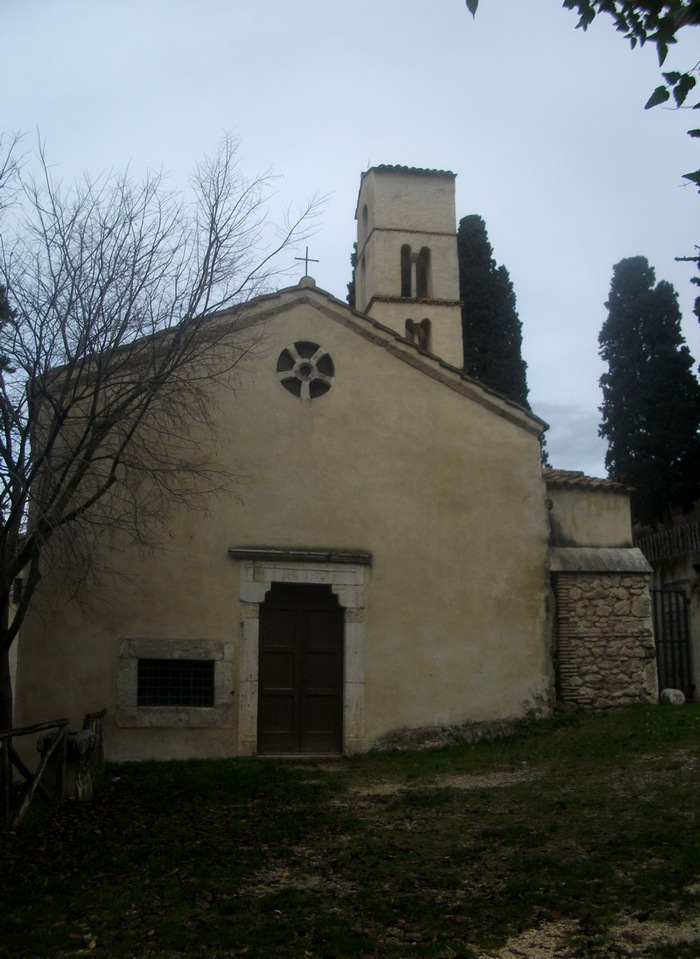 Sabina Poggio Mirteto-Chiesa di San Paolo del XIII secolo.jpg